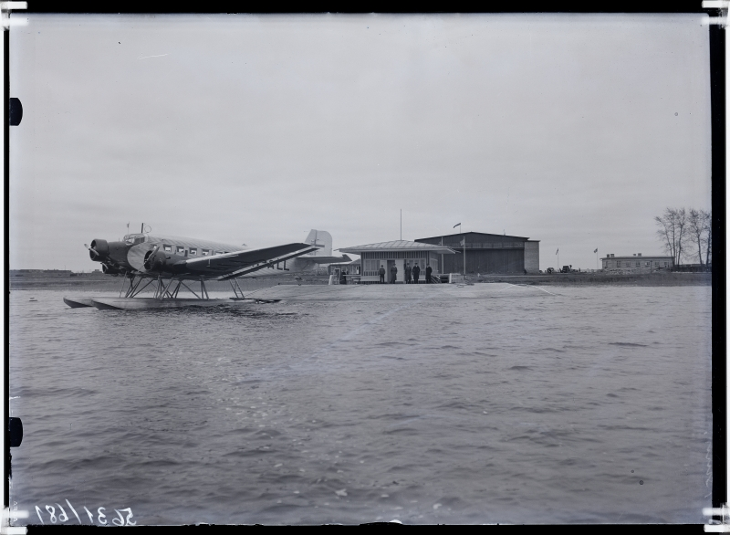 Junkers Ju 52/3m at Ülemiste Airport